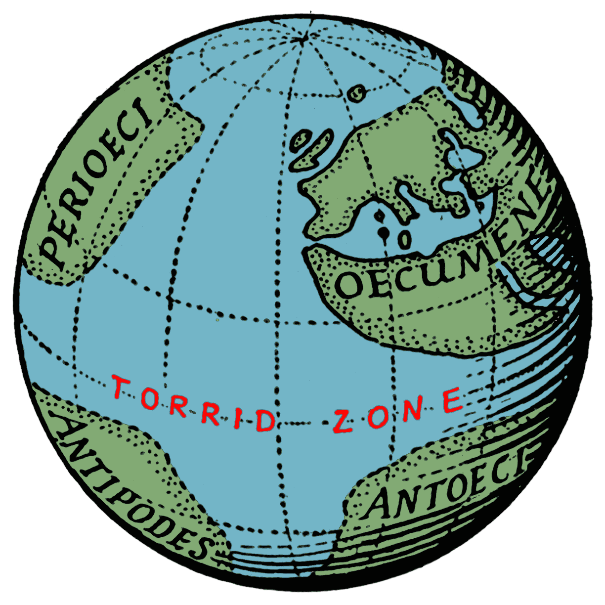 Globe according to Crates of Mallus (ca. 150 B.C.)